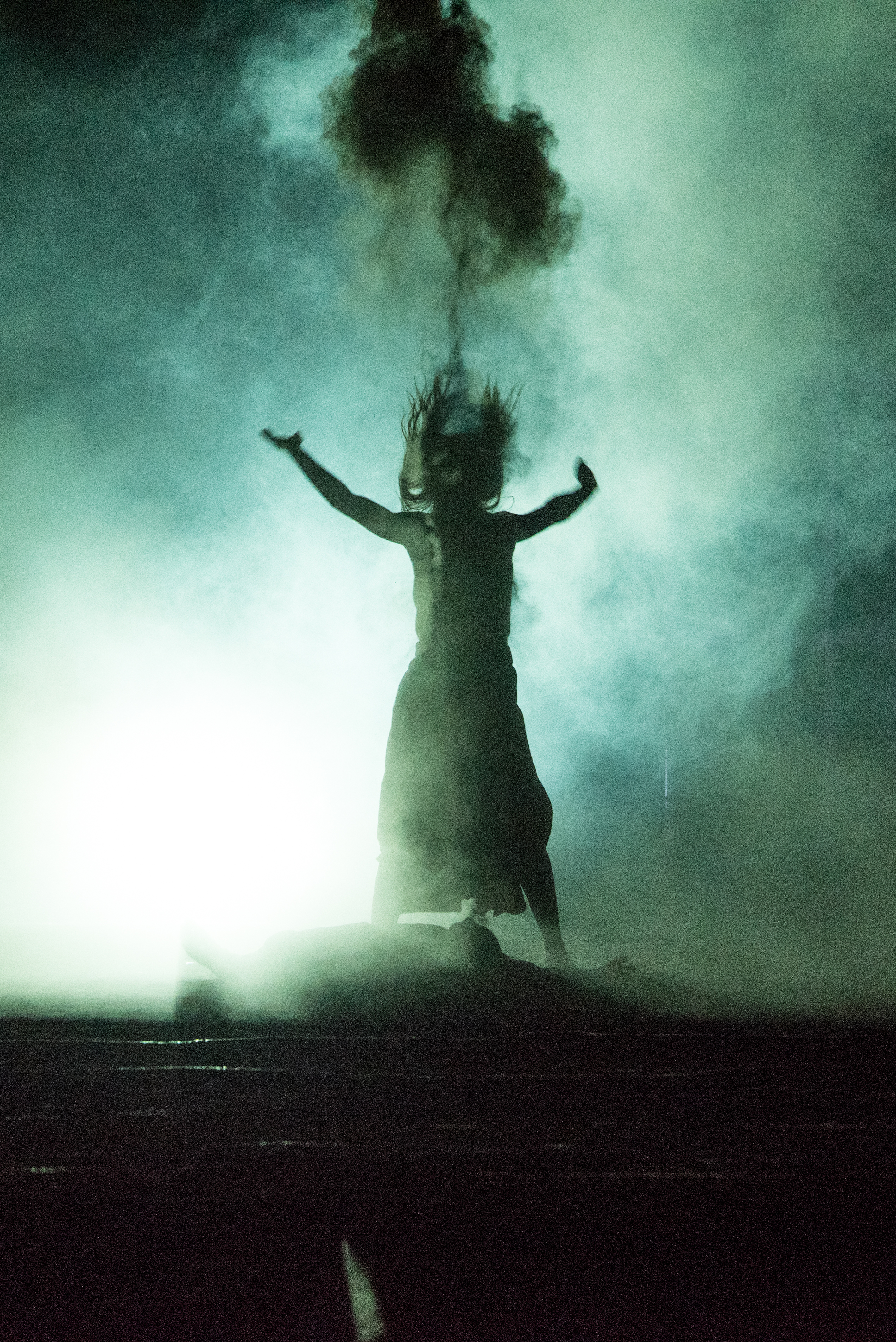 Antigone is burying her brother Polynices by throwing ashes in the air, with Aenne Schwarz as Antigone, Director: Jette Steckel, Burgtheater, Vienna 2015